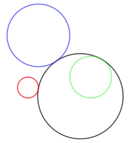 One particular solution to Apollonius' problem.